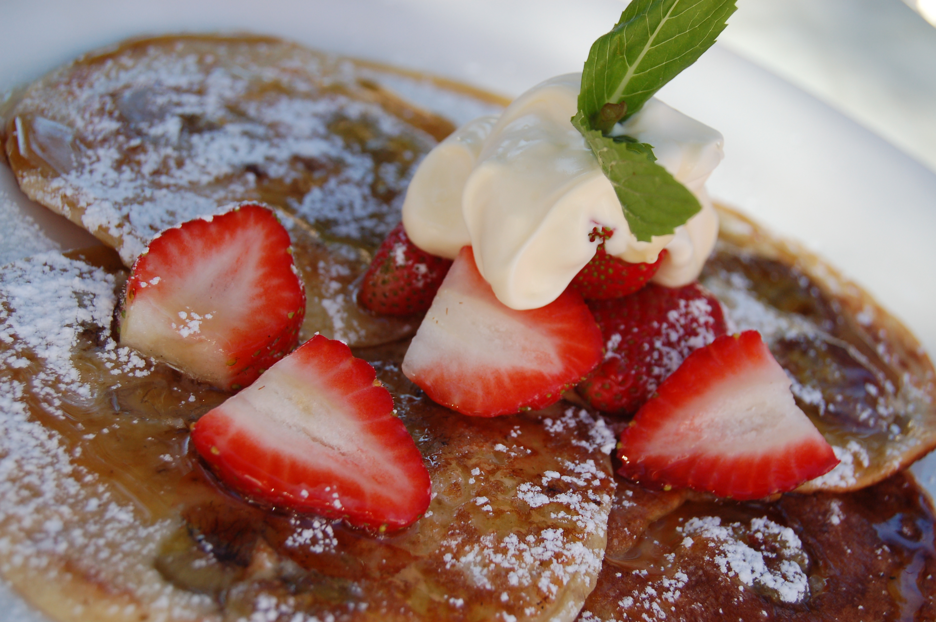 Pancakes topped with strawberries and cream. From the John St Cafe, Cottesloe, Australia.